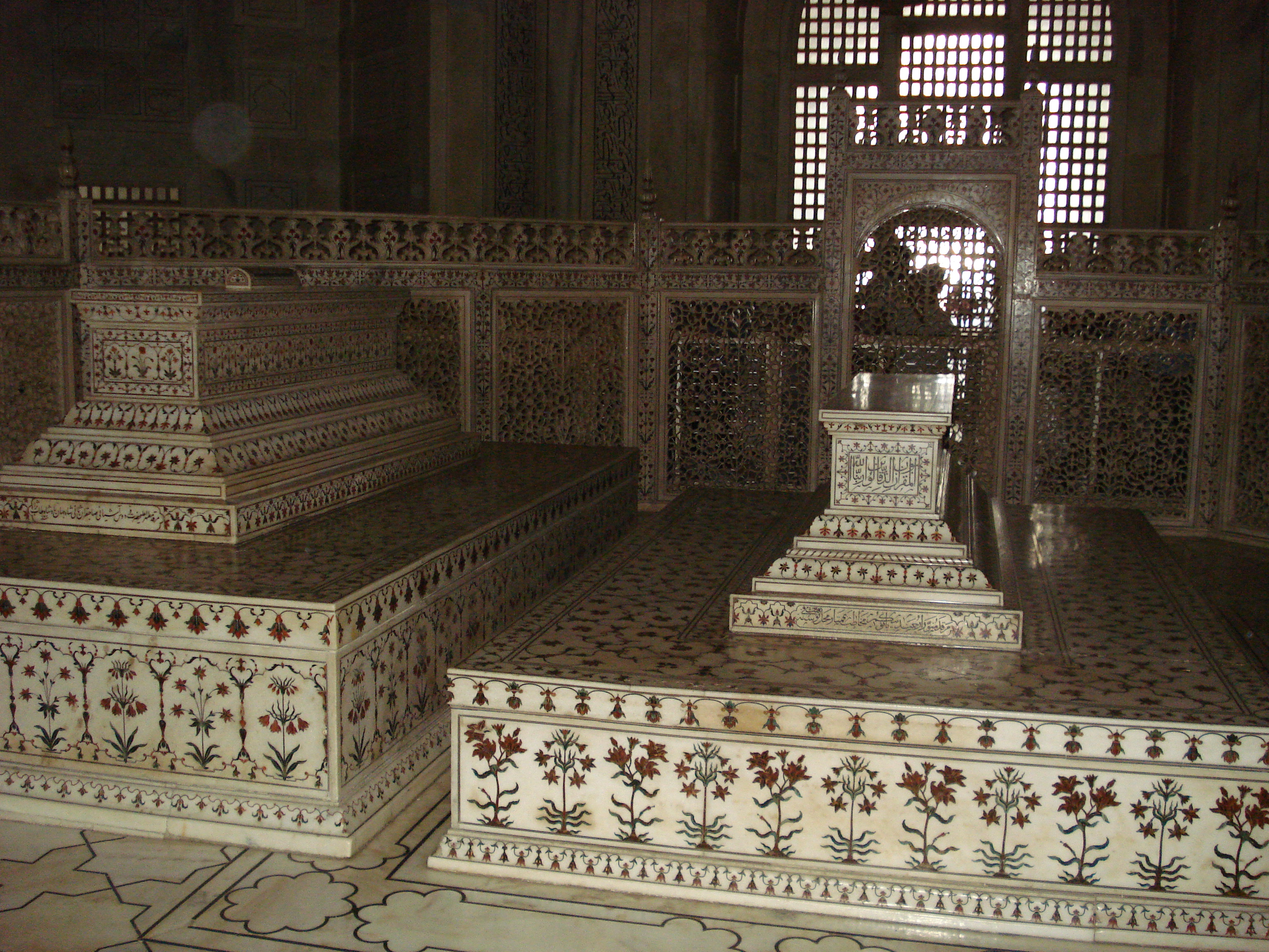 Persian prince tomb taj mahal